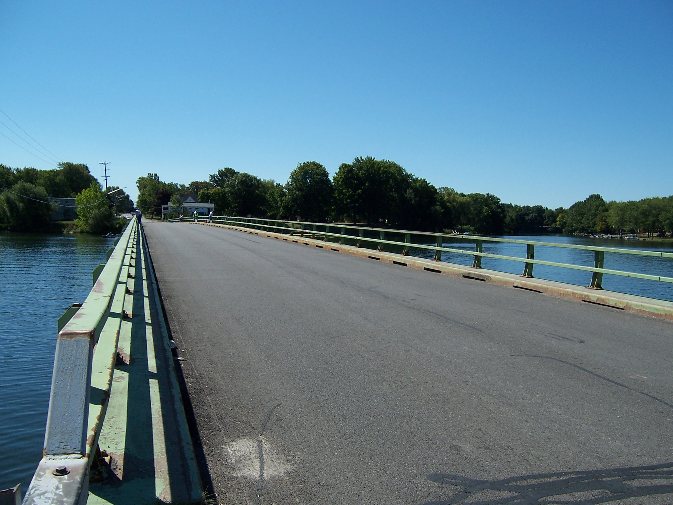 New York State Route 279 crossing the Oak Orchard River at "Lake Alice", a widewaters formed by a dam. The camera is facing south-southwest, with upstream to the right. Otter Creek enters the river from the south-southeast at the right of the image. The hamlet of Waterport in the town of Carlton, Orleans County, New York is at the far end of the bridge.